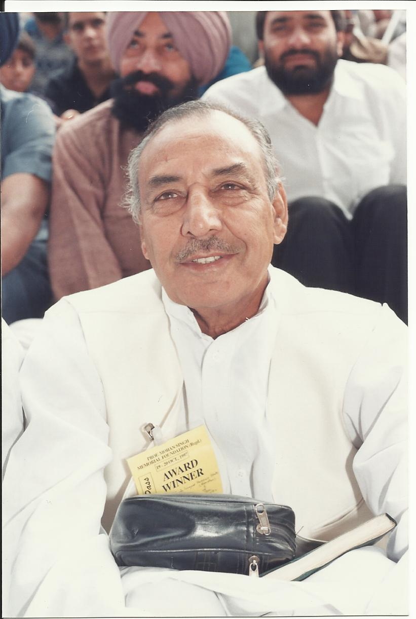 panjabi singer